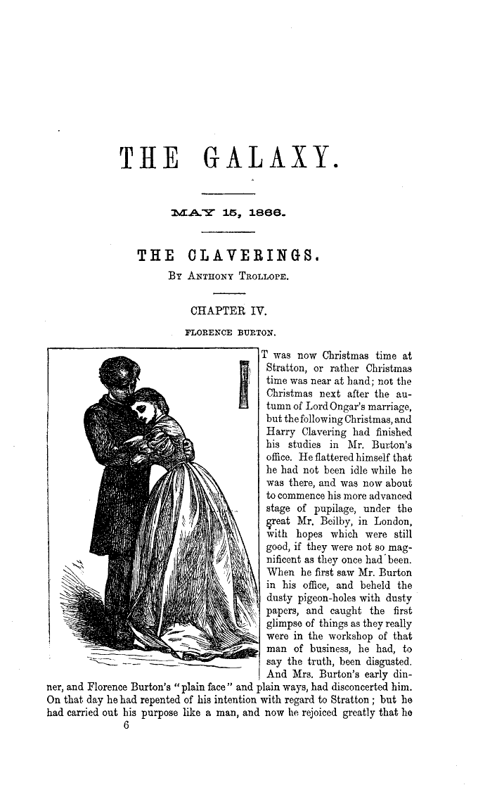 The Galaxy magazine, Volume 1, Issue: 2, May 15, 1866, featuring part of the serialization of The Claverings by Anthony Trollope